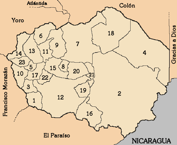 Map of Olancho Department of Honduras, showing the municipalities.